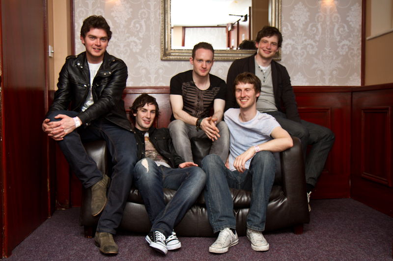 The Dirty 9s @ the Academy